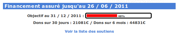 La Quadrature du Net's secured funding for 2011, as of 23rd April 2011. Screenshot from